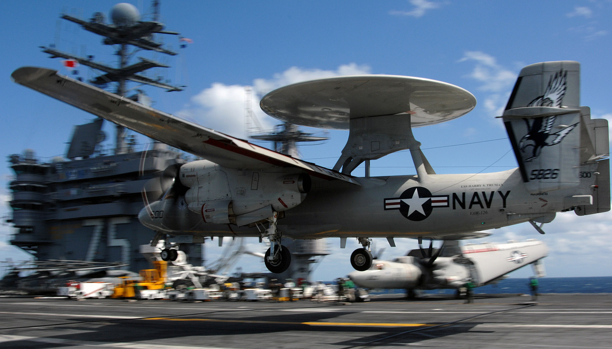 ATLANTIC OCEAN (Sept. 17, 2007) - An E-2C Hawkeye, attached to the "Seahawks" of Carrier Airborne Early Warning Squadron (VAW) 126, prepares to make an arrested recovery aboard Nimitz-class aircraft carrier USS Harry S. Truman (CVN 75) during flight operations. Truman is underway in the Atlantic Ocean conducting carrier qualifications. U.S. Navy photo by Seaman Kevin T. Murray Jr. (Released)